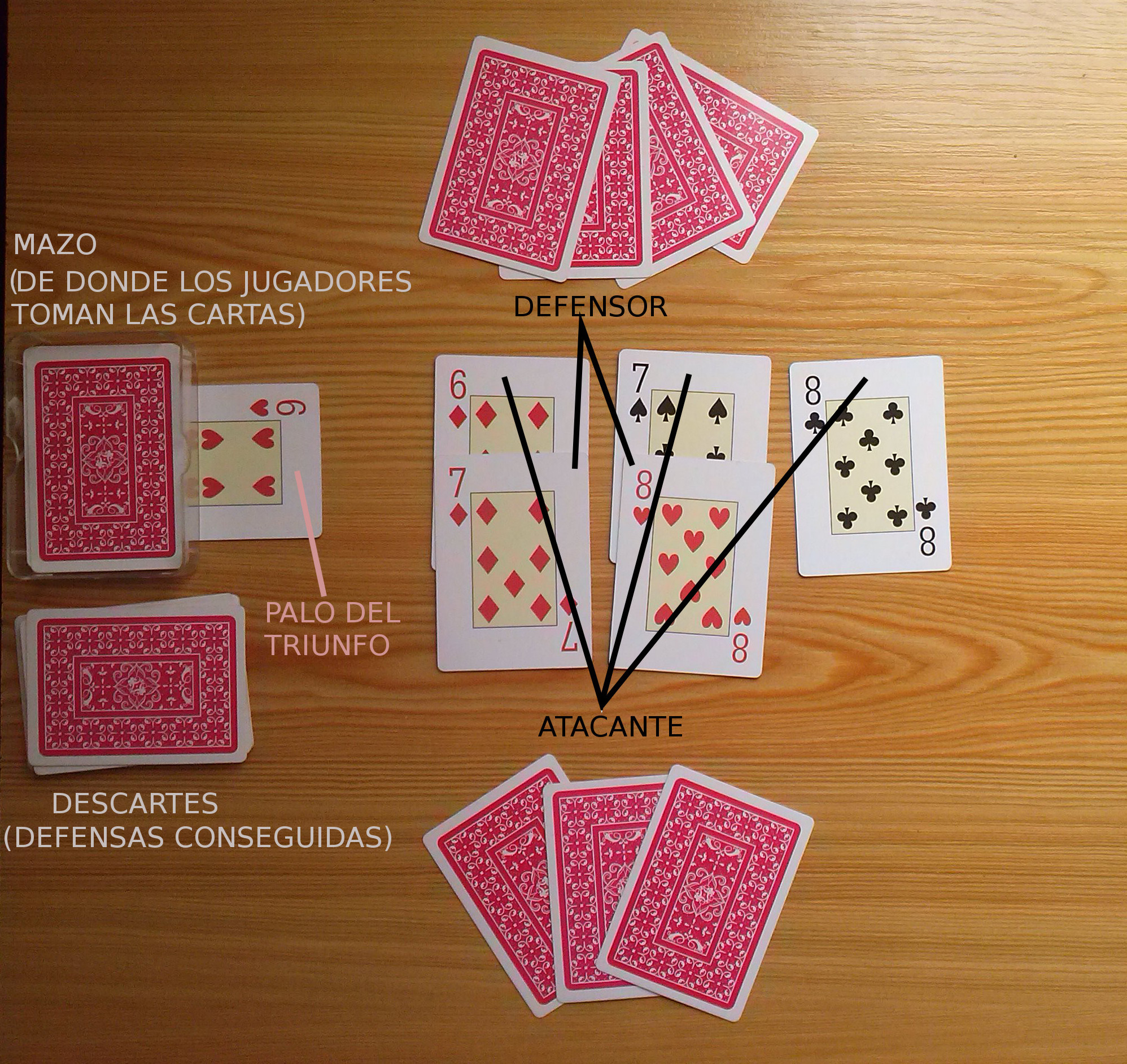 In the picture we see a two player game of Durak in process. The atacker provide a third card after two succeded defenses —one of them with the trump suit—. Now it is the turn of the defenser after a third card of the attacker. We can see too the deck where the cards are taken and the discarded one as well as the trump suit. All is indicated with captions in spanish.